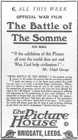 Newspaper ad for "The Battle of the Somme" (1916 British film)